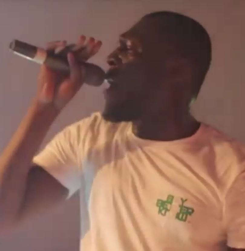 Cropped video still of Stormzy performing at the Beat 99.9 FM end-of-year concert in Lagos, Nigeria, in December 2015